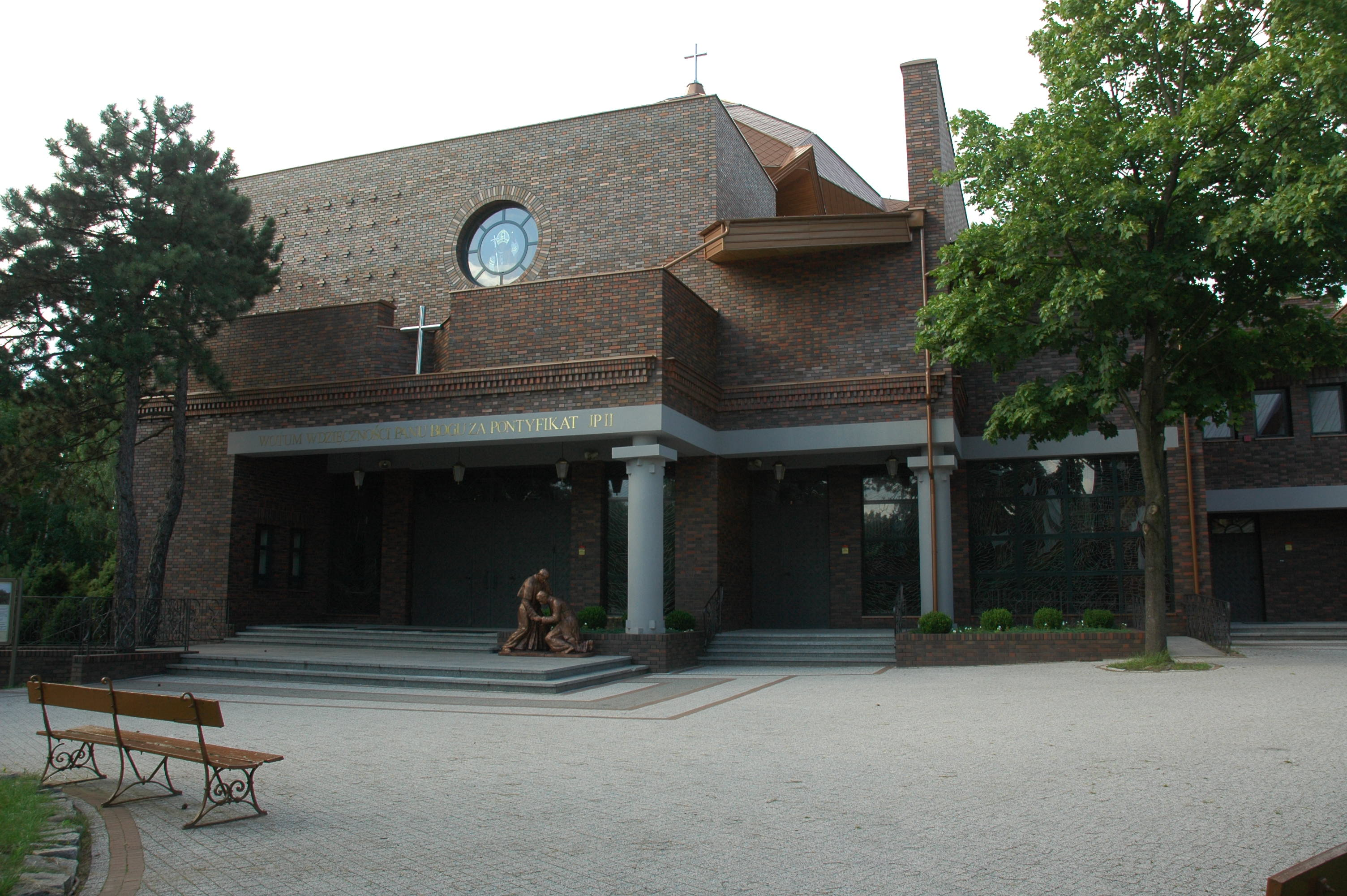 Parish of Nativity of the Blessed Virgin Mary in Warsaw (Płudy) (New Church)